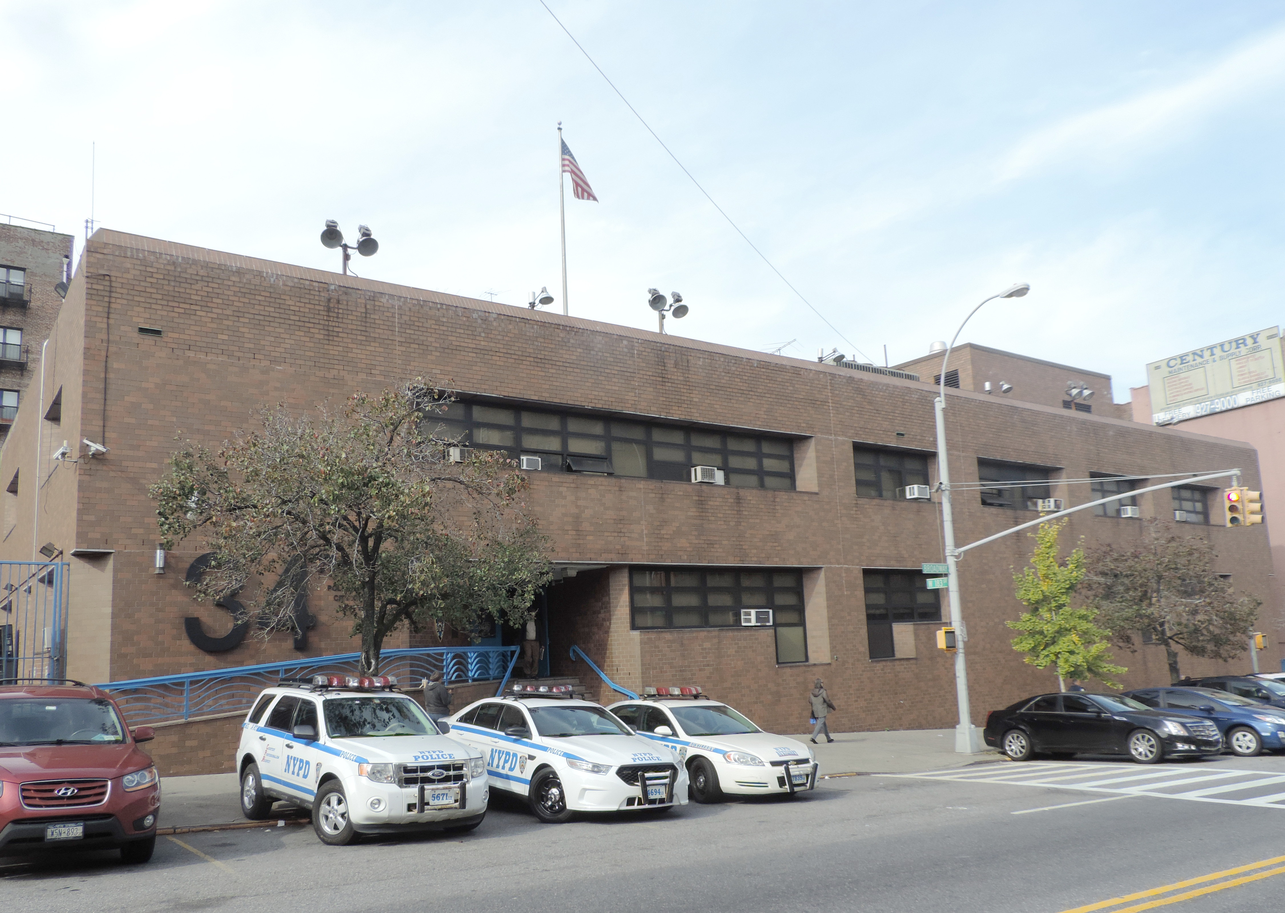 Looking north across Broadway at precinct house.